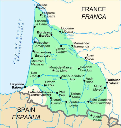 map of Gascony